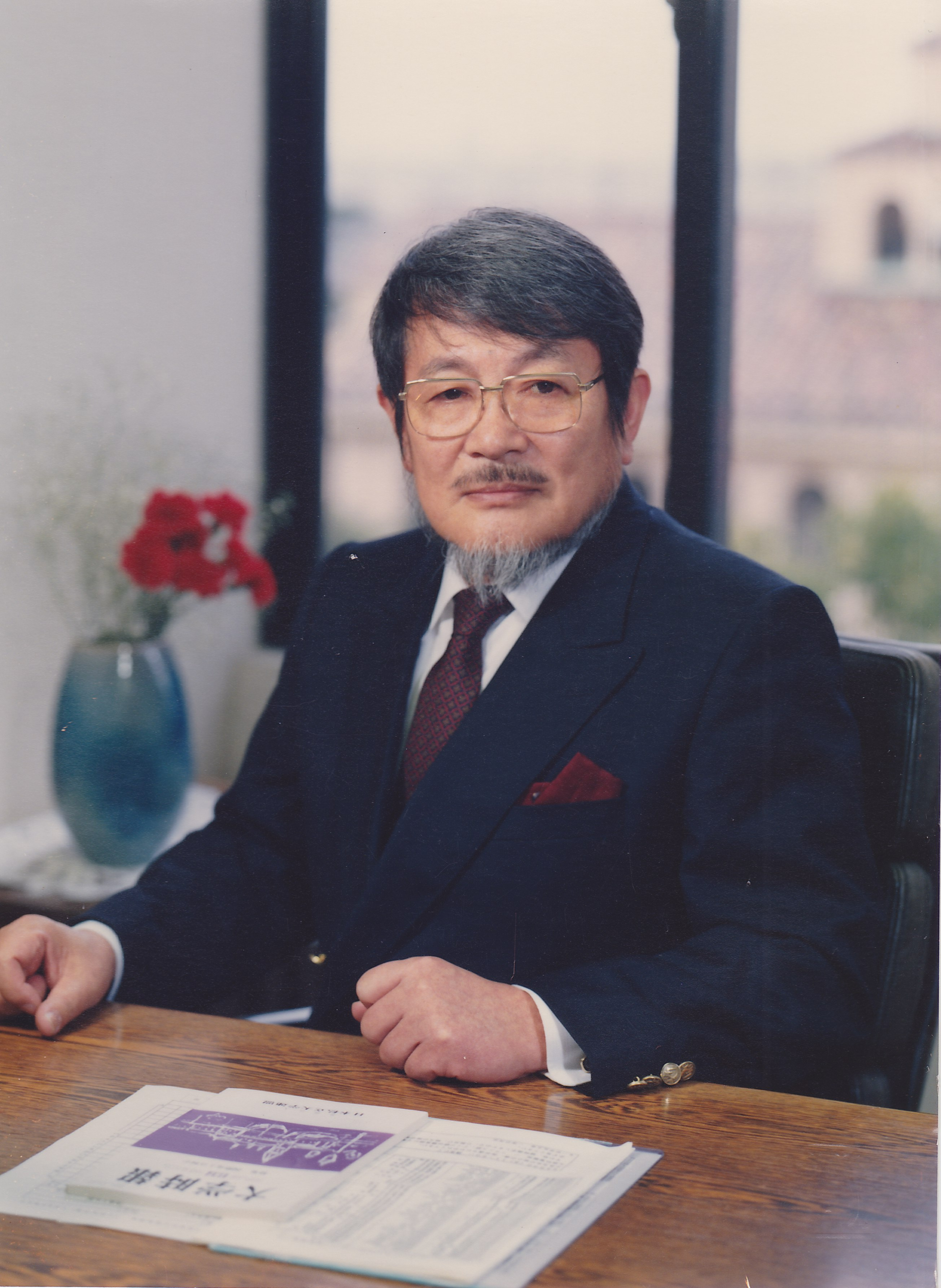 Kosaku Yamaguchi (1926 – 1993), former president of Kobe College